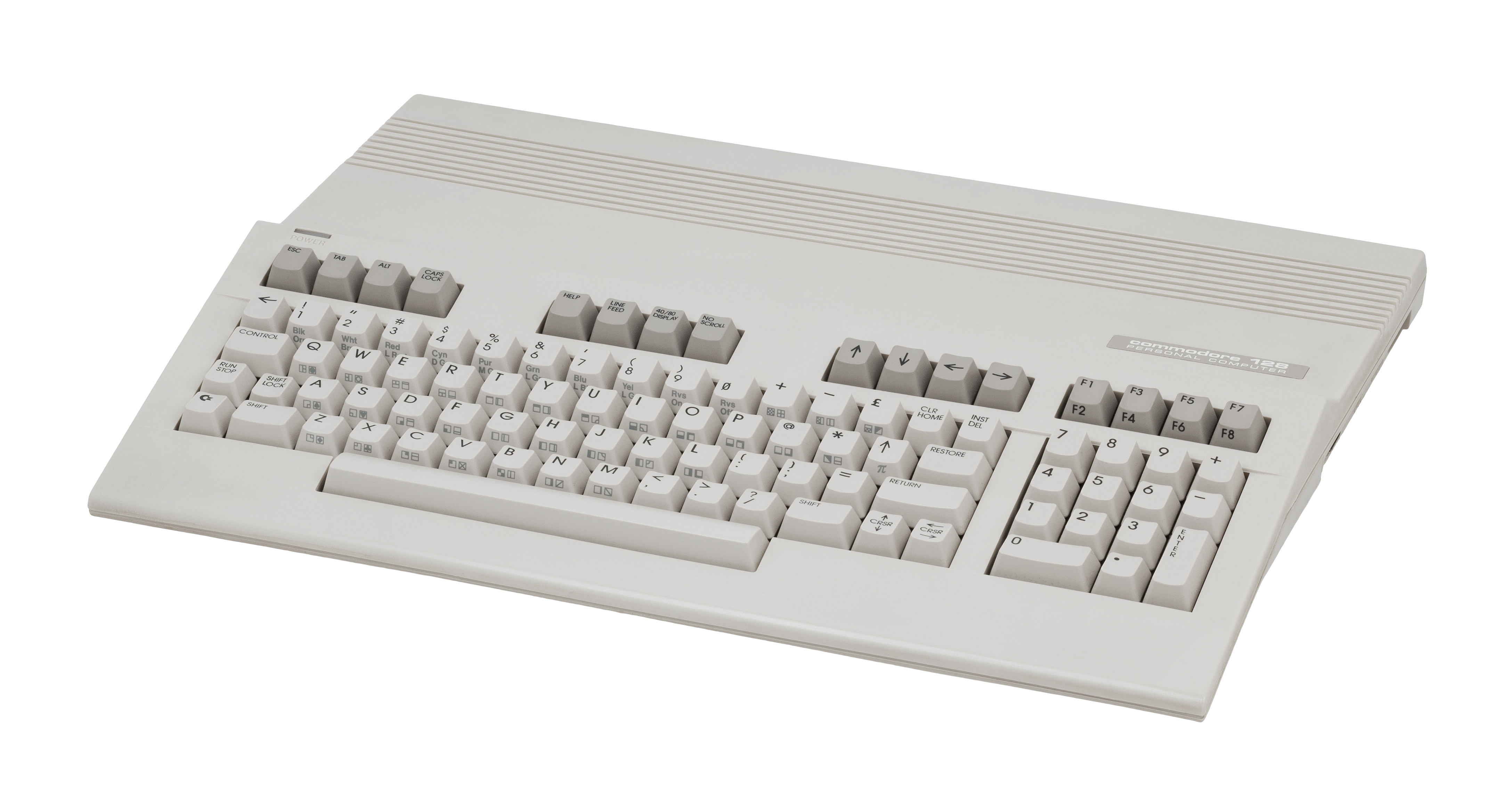 The Commodore 128, an 8-bit computer released by Commodore Business Machines in 1985. A successor to the popular Commodore 64.